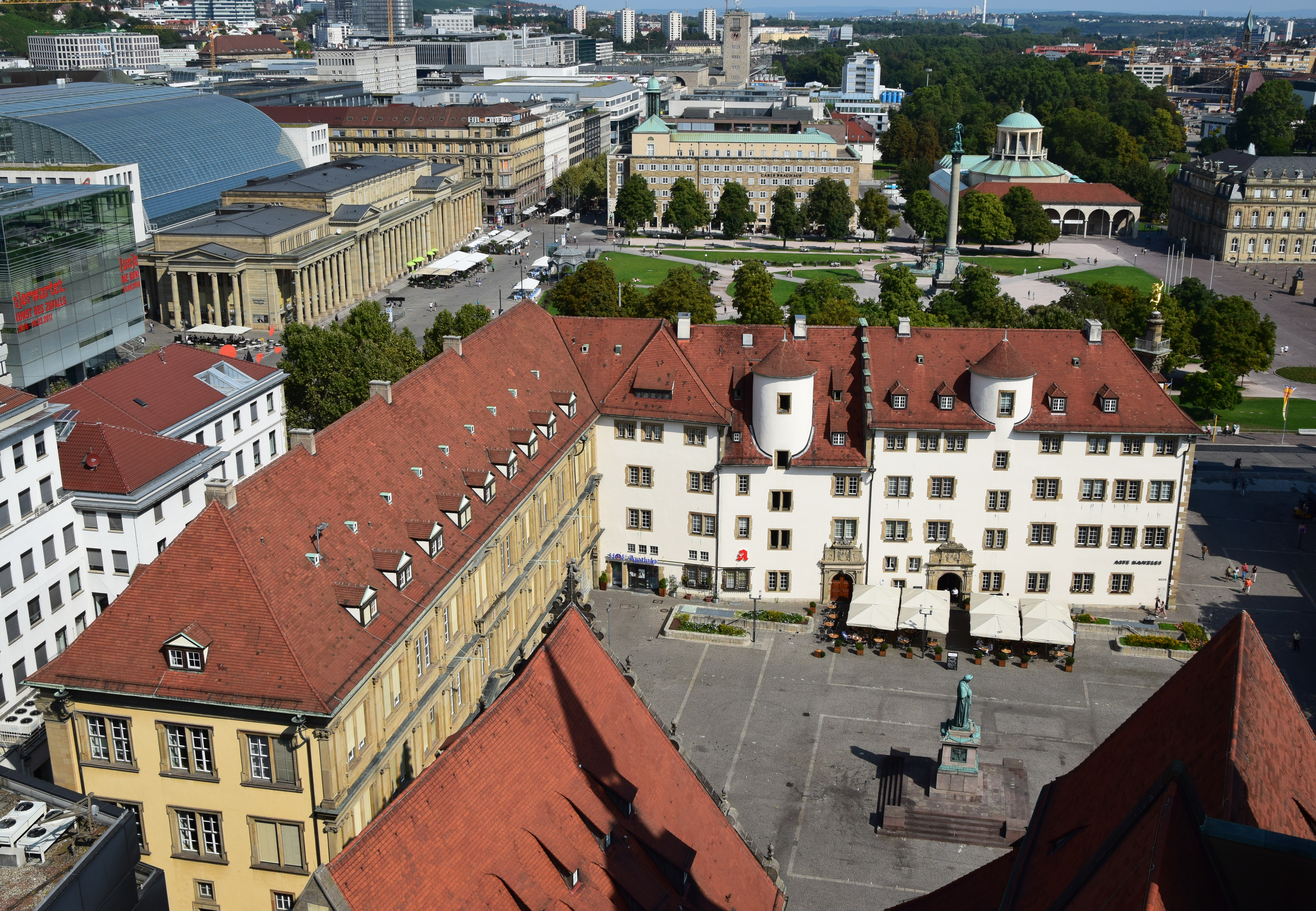 Look of the tower of the pencil church in Stuttgart, Baden-Wurttemberg, Germany. In the foreground the shimmer place with the shimmer monument as well as prince's construction and old office. Behind it castle square with the jubilee column as well as queen's Olga's construction, art building and new castle. In the background the railway station storm. To the left of art museum, king's construction with the glass roof of the king's construction passages as well as the Marquardtbau and Königstrasse. (If you go with the cursor about the picture, the picture comments become visible.)